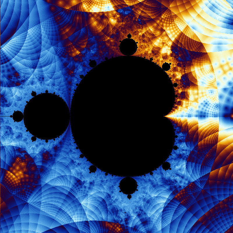 A render of the Mandelbrot set colored by a function of the distance of the iterates to the nearest Gaussian Integer.